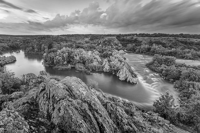 How monochromacy color-blind people see the world. (original - File:Вечір на "інтегралі" - річка Південний Буг.jpg